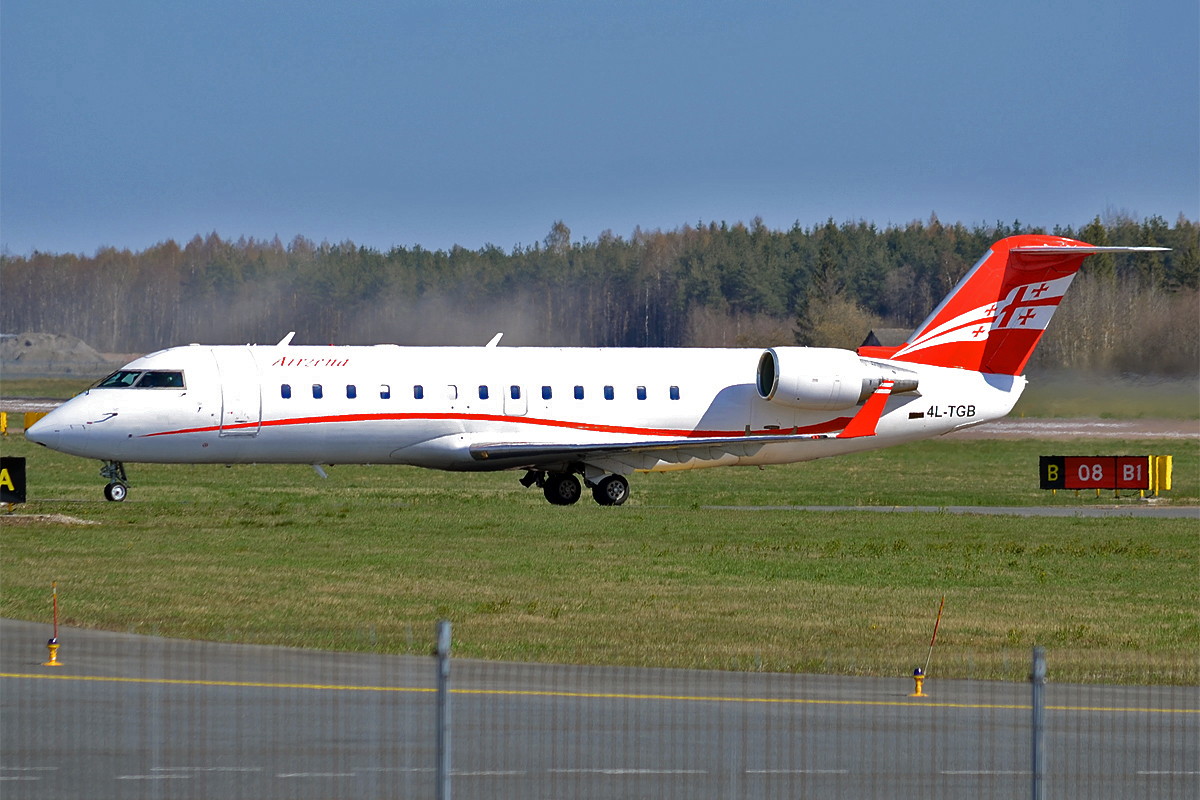 Georgian Airways, 4L-TGB, Canadair CRJ-200LR